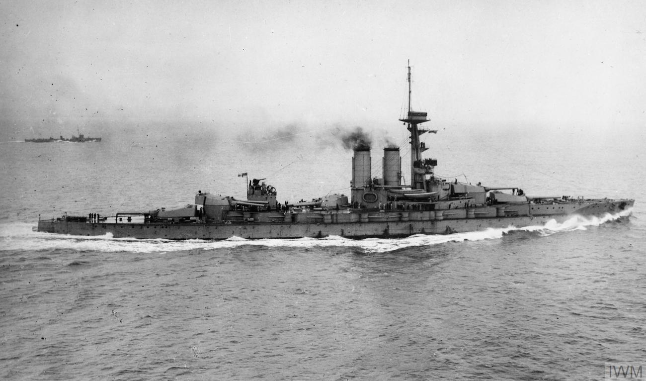 Photograph of British battleship HMS Erin underway in the Moray Firth, Scotland.